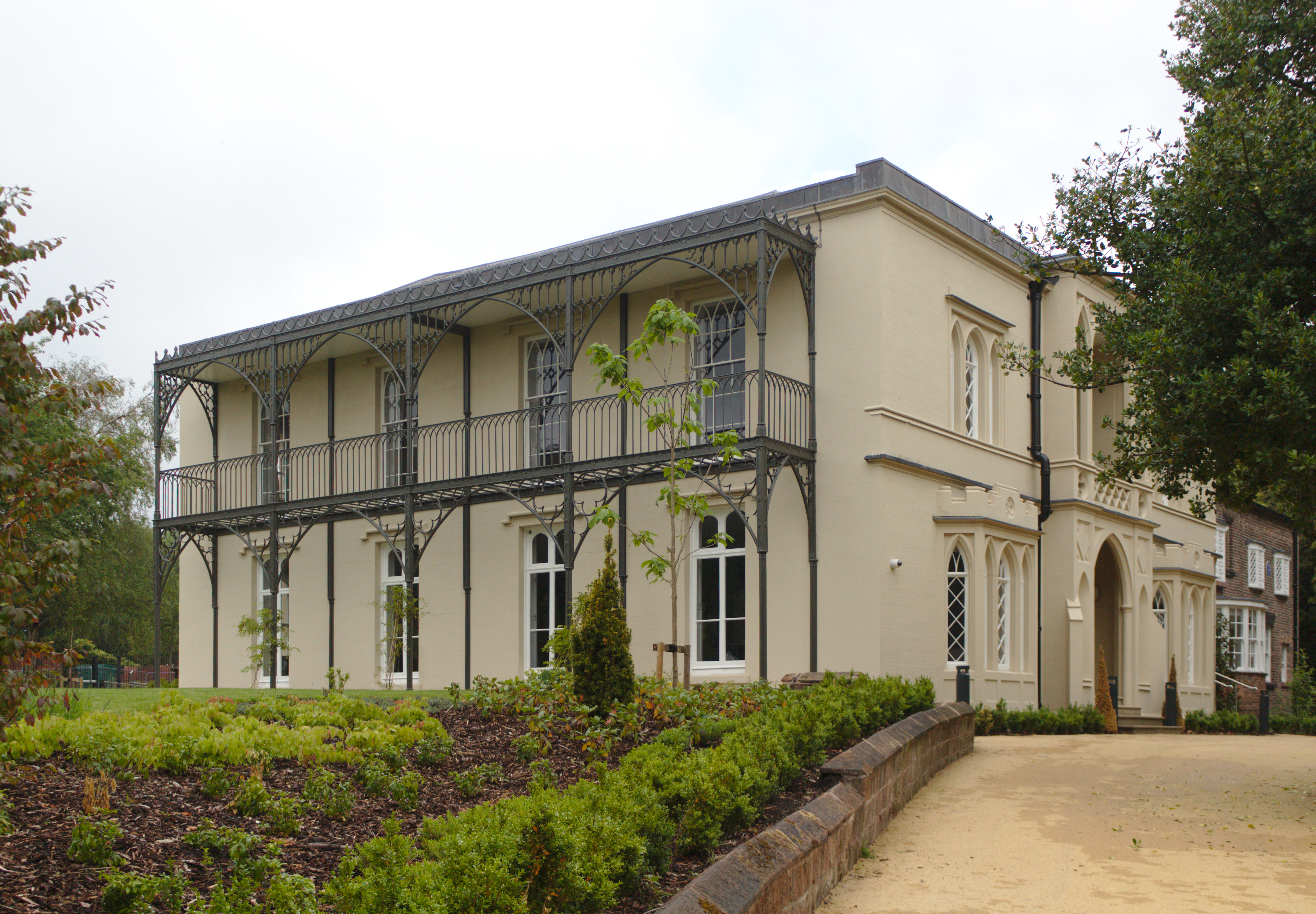 Left return with two-storey cast iron verandah